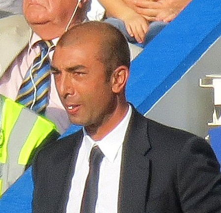 Profile of Roberto Di Matteo, 2011